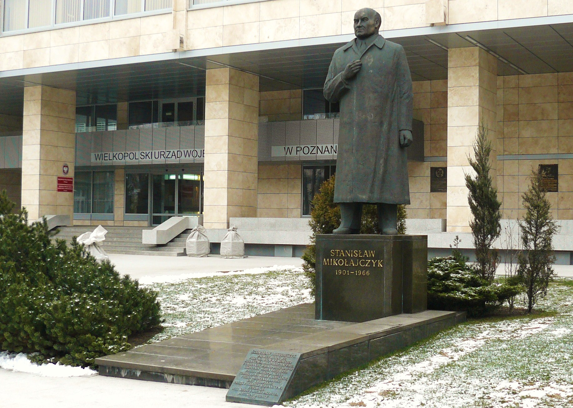 Monument of Stanislaw Mikolajczyk, Poznan.